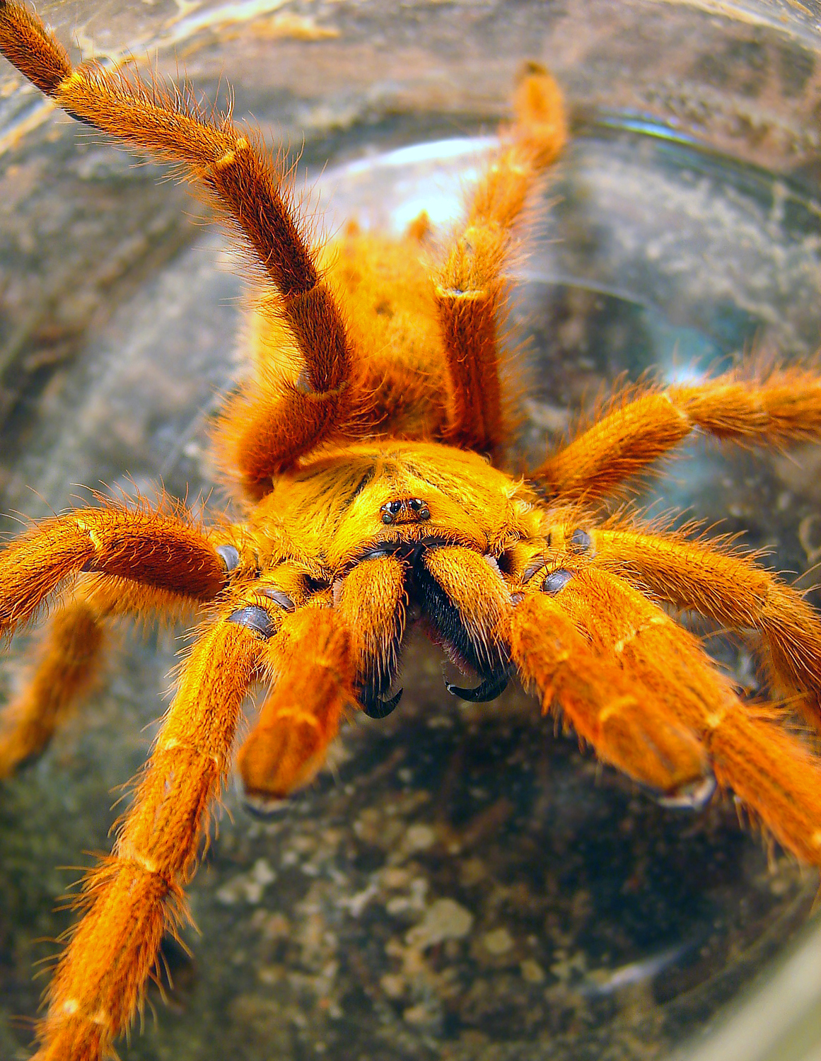 Charm shows her pretty face for once. Try the large size, or the original if you dare. I used different lighting here, hence her lighter color. She's been featured here as well: Flickr data (on upload date): Camera: Sony DSC-H1 Tags: tarantula, Pterinochilus, murinus, Pterinochilus murinus, spider, arachnid, invert, invertebrate License: CC BY-SA 2.0